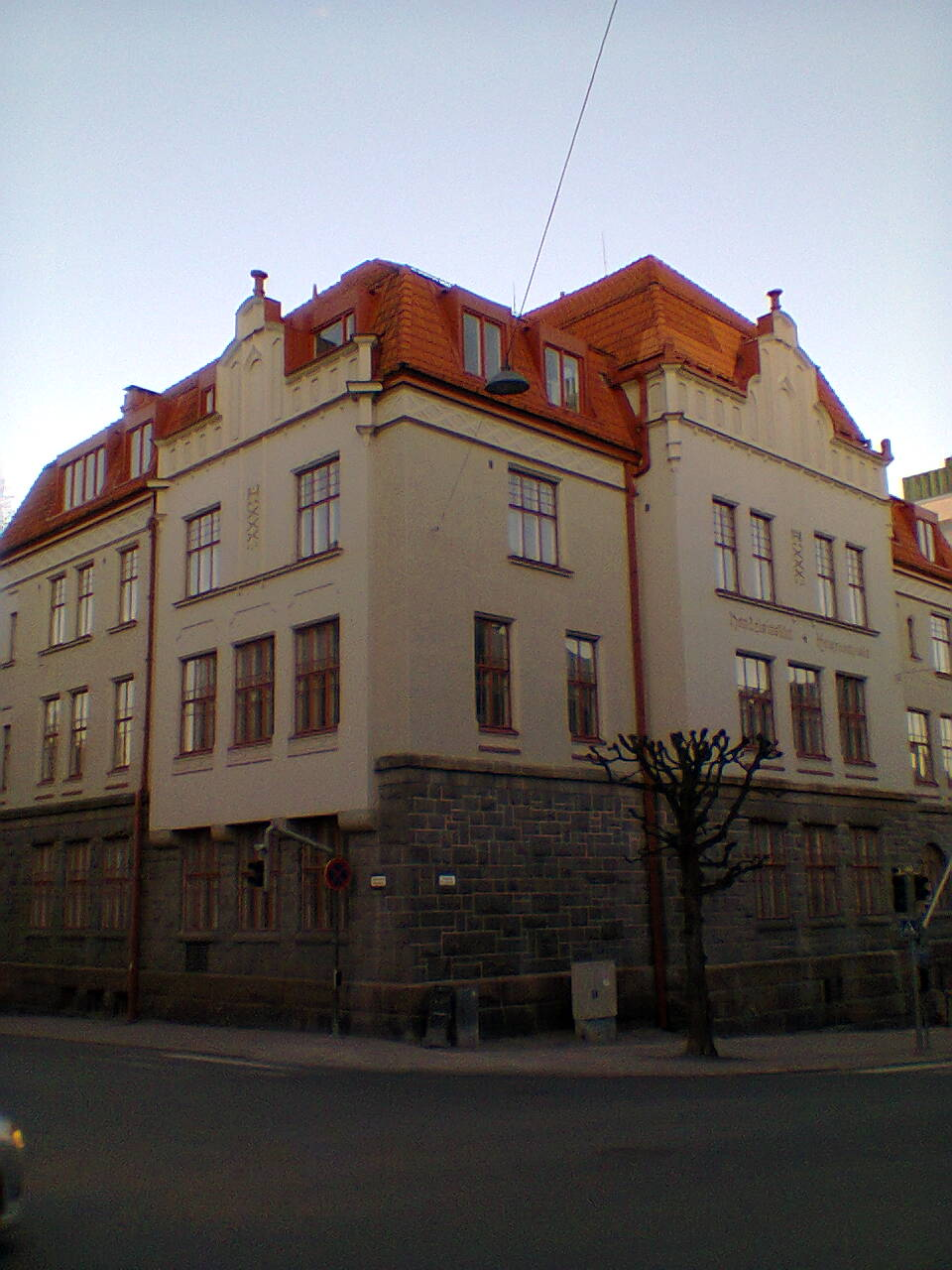 Turku commercial school's old art nouveau style building from west. The building was completed in 1908 and housed the school between 1908 and 1968. Aurakatu 11, Turku, Finland